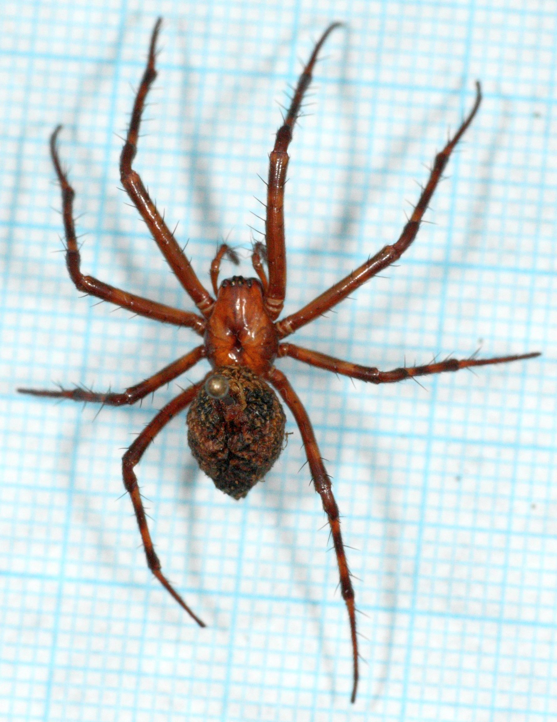 Female Meta menardi